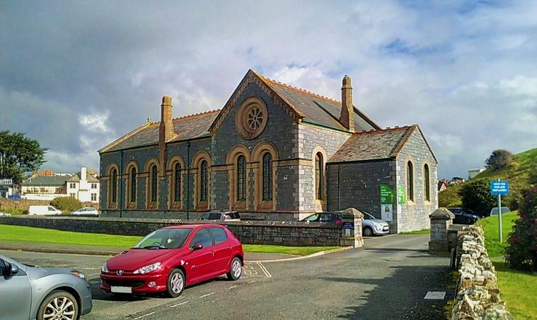 Bude Methodist Church, a nineteenth-century building in Bude, Cornwall.